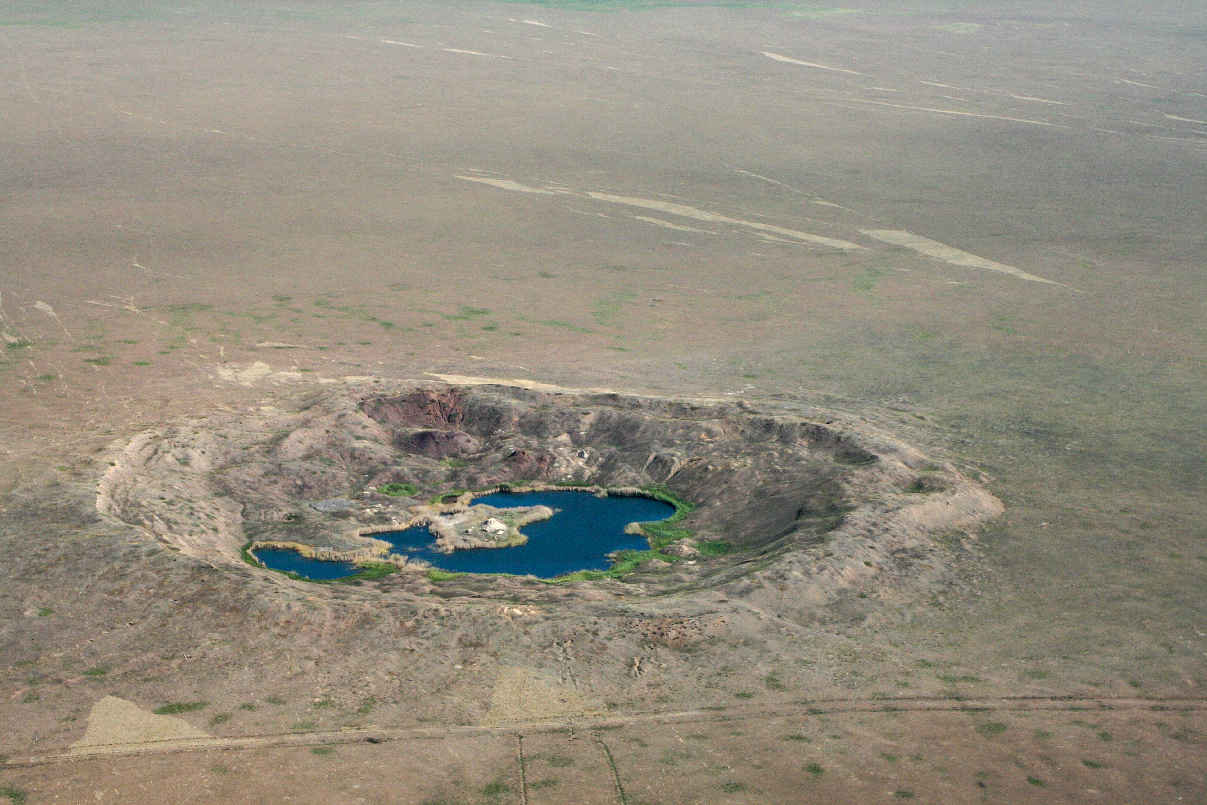 Craters and boreholes dot the former Soviet Union nuclear test site Semipalatinsk in what is today Kazakhstan. Copyright CTBTO Preparatory Commission